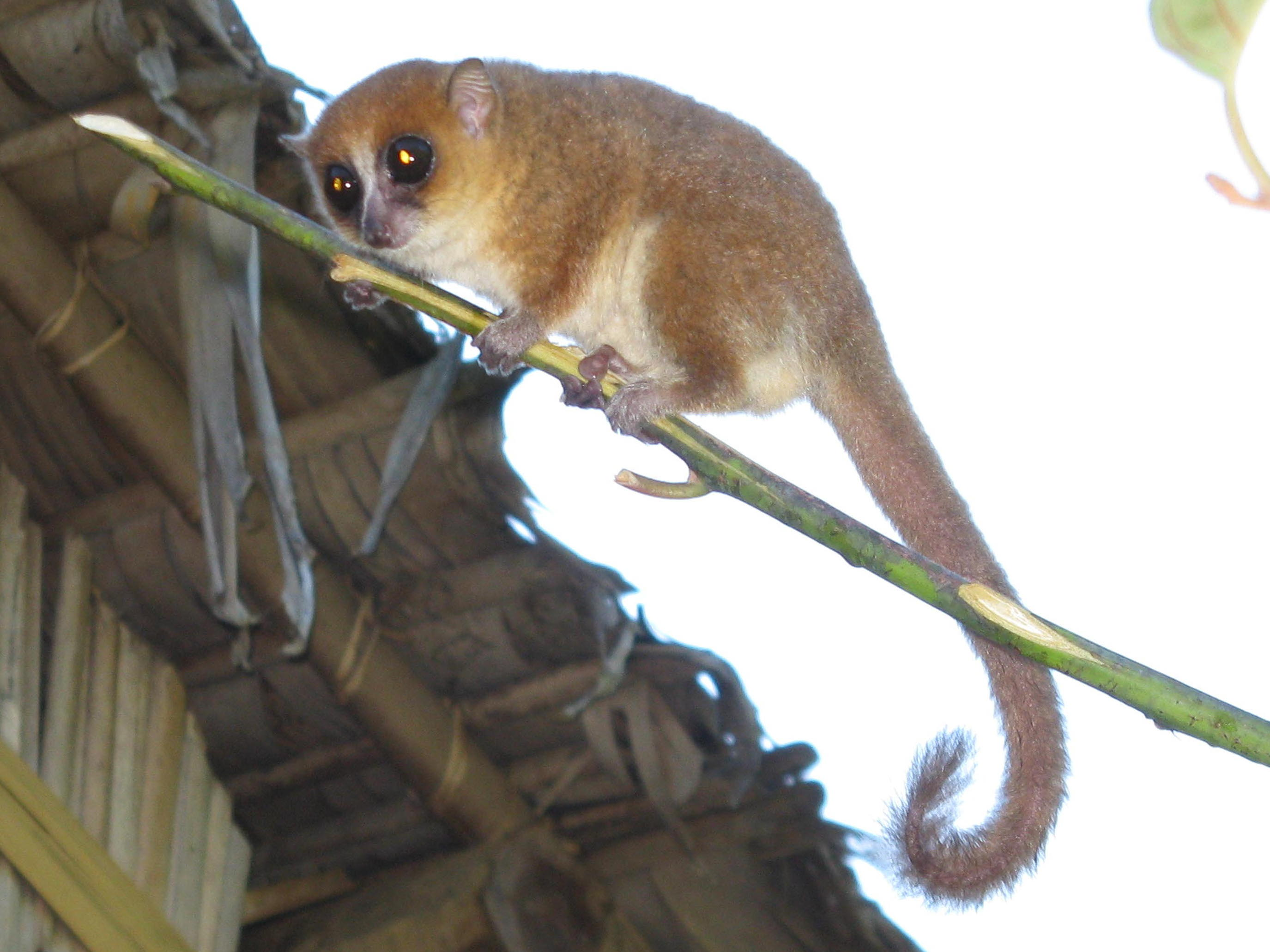 Gerp's mouse lemur (Microcebus gerpi): Holotype 02y09 fina (male)